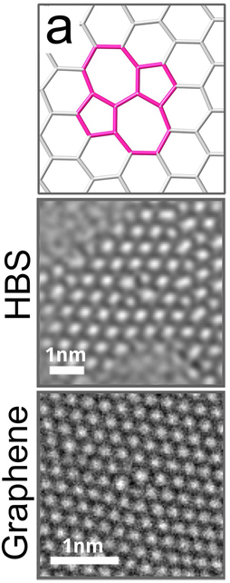 Atomic models (top row) and AC-HRTEM images of Stone-Wales defects in HBS and graphene (middle and bottom rows, respectively).